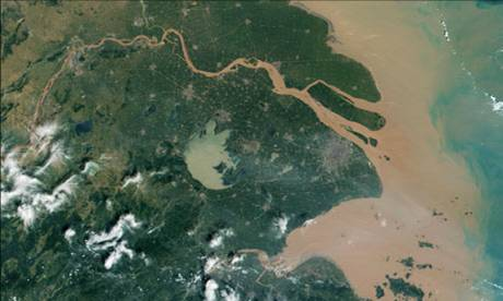 Yangtze River Delta